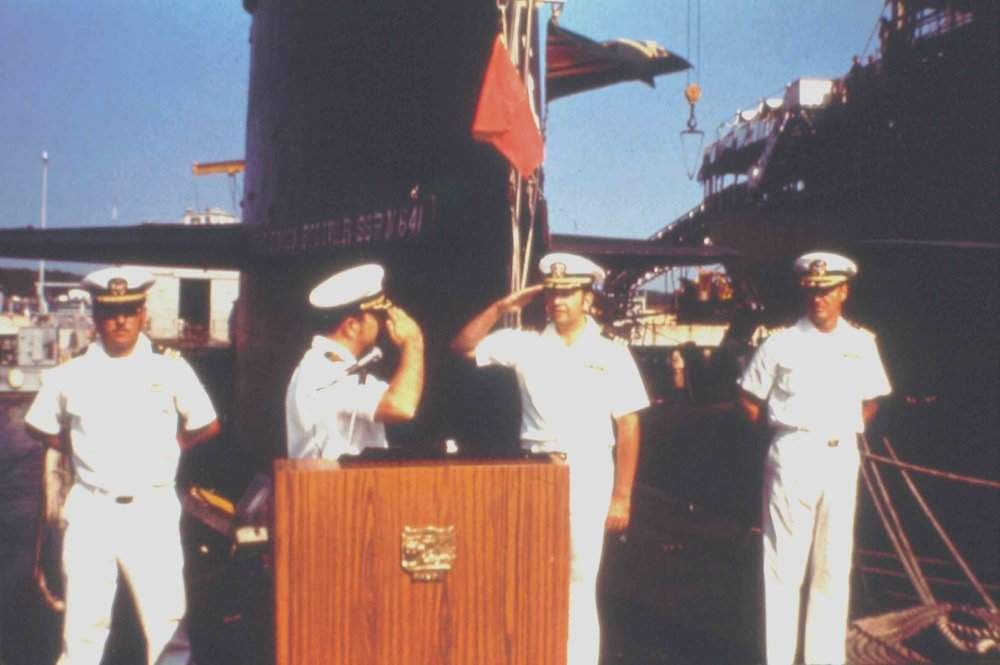 Blue - Gold Crews, Change of Command, 3rd Day of Refit